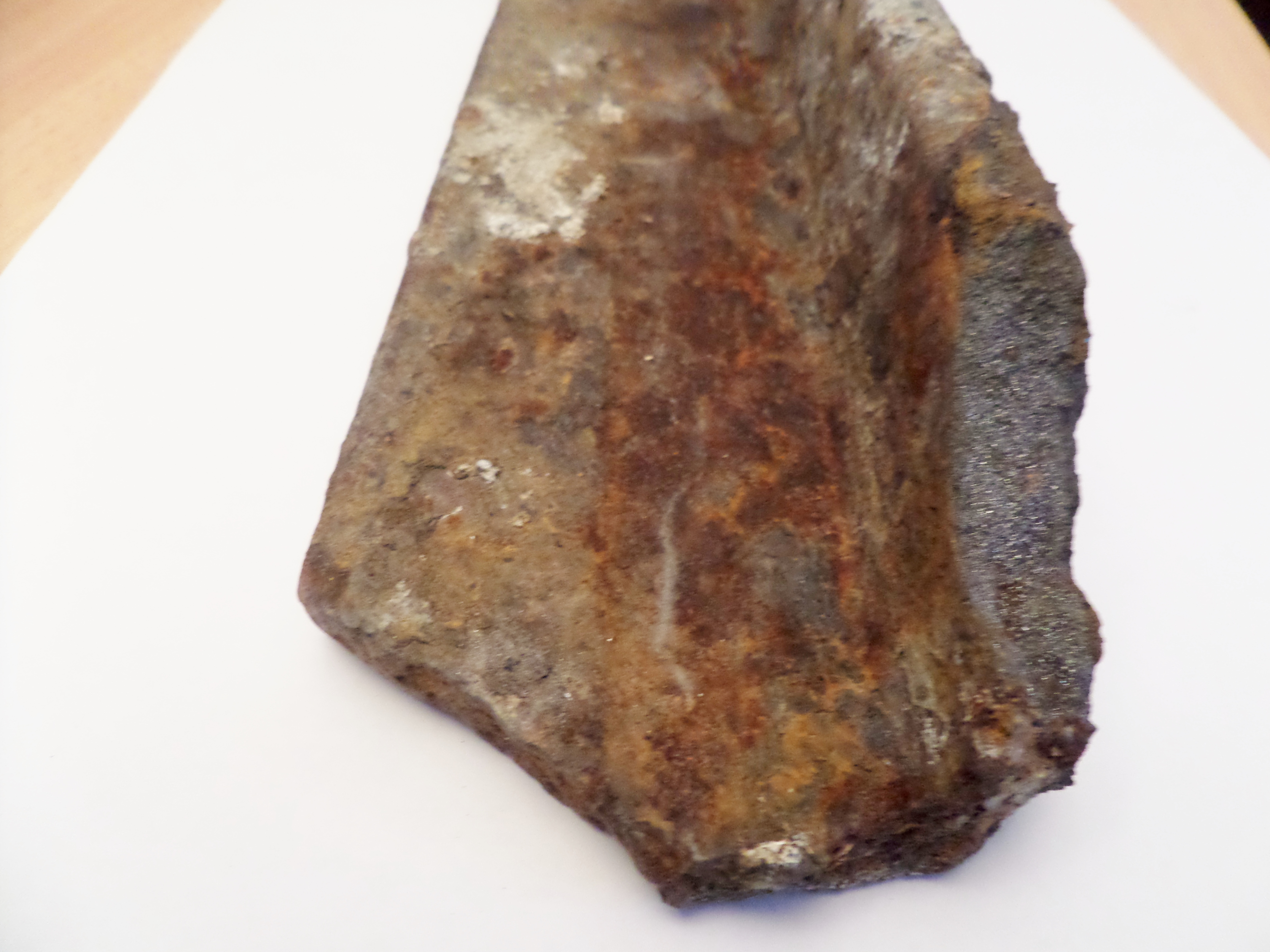 Plateway rail section, Stevenston Canal waggonway, Stevenston, North Ayrshire, Scotland. Found in old mine waste. Detail of cast iron.